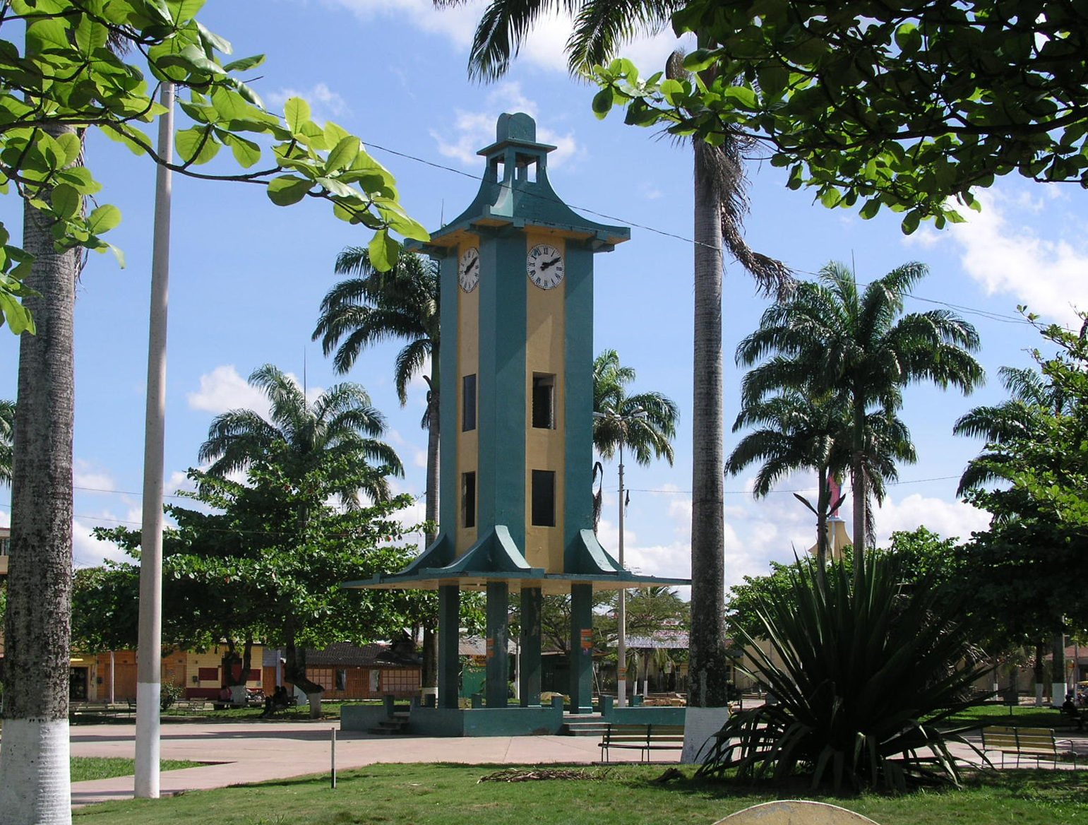 Puerto Maldonado, Plaza de Armas, Peru. Central monument with asian inspiration. The photo was taken the 22 July 2004 by Håkan Svensson (Xauxa)